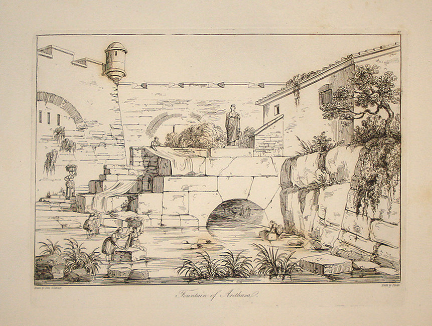 "Etching of 1818. Measurement of the playing surface 19 x 26.5 cm. Show the Arethusa in the city of Syracuse in Sicily. The press comes from the opera "Antiquities of Sicily" containing plates engraved by Bartolomeo Pinelli and drawn by John Goldicutt. The work was published in London in 1819. The print is in good condition, only some slight halo on margins. Engraved daBartolomeo Pinelli. Painter, draftsman, engraver and modeller. Born in Rome on November 20, 1781, he died in Rome on April 1st 1835. He began his studies at the Academy of St. Luke and them continues to Bologna where he became famous quickly. He returned to Rome and began to produce a significant amount of drawings and prints. It provides illustrations for the works of Virgil, Dante, Tasso, Cervantes and 'Aretino. In 1809 published the first "Collection of colorful costumes" made up of 50 tables which followed other collections always on the customs of Rome and numerous other works. Pinelli for his work may be considered: "the painter of the Roman people." (Auto translated from